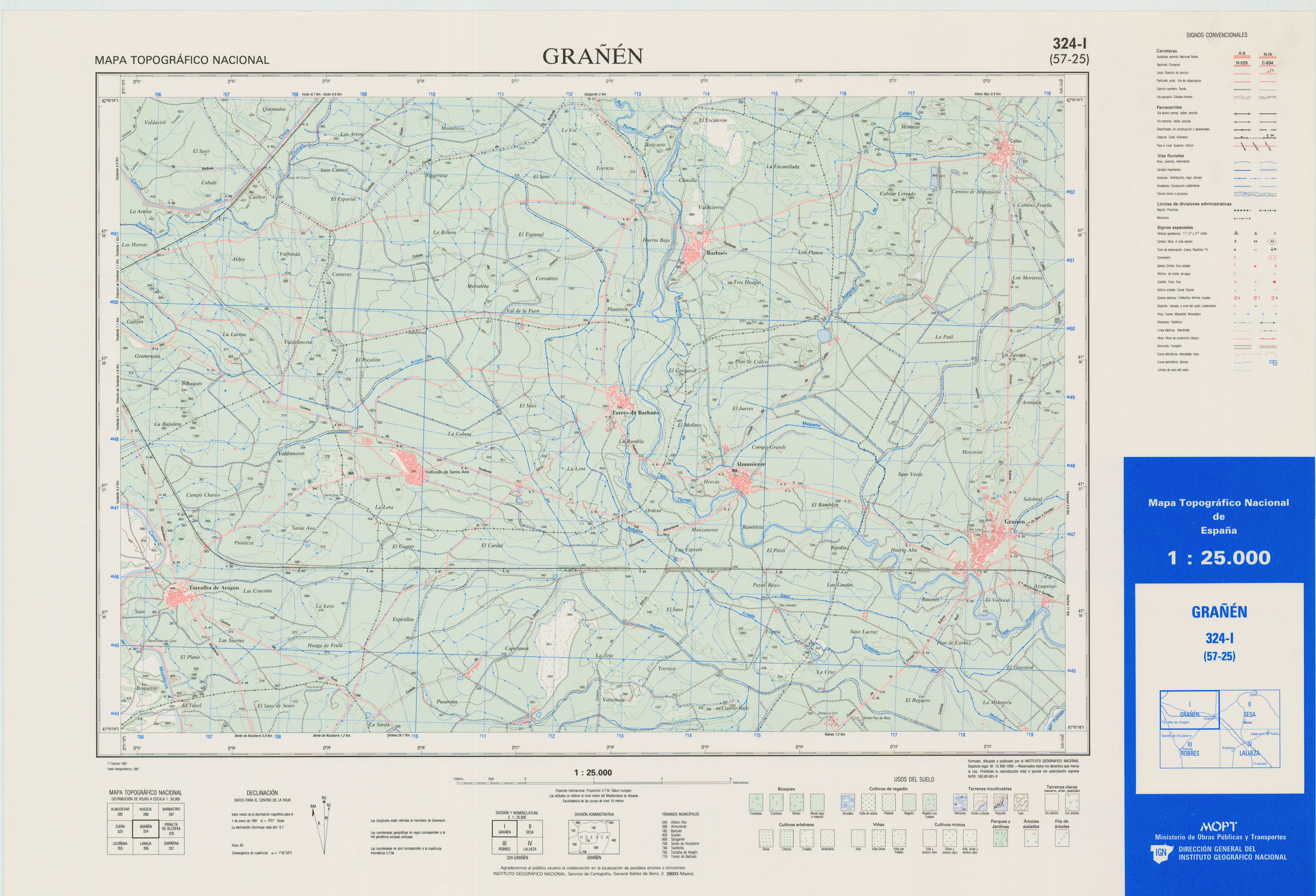 Fragment 0324c1 of the National Topographic Map of Spain in 1991 at a scale of 1:25000 printed and scanned with a resolution of 250 ppi. It shows Granien.